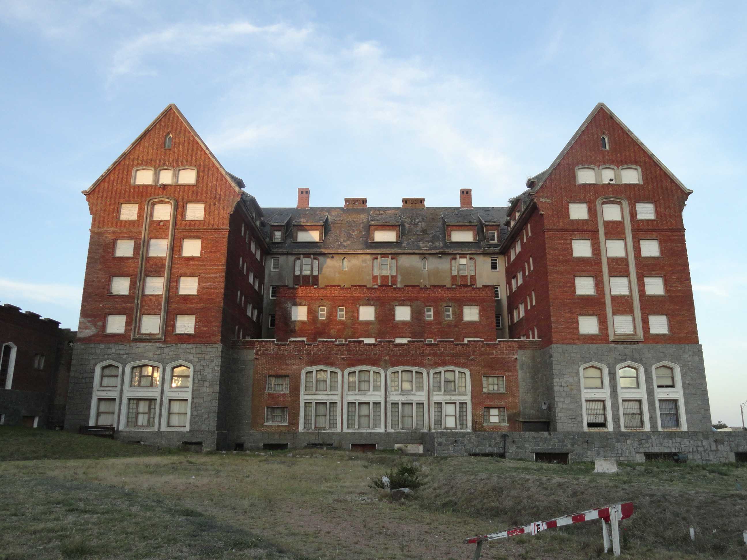 Hotel San Rafael de Punta del Este